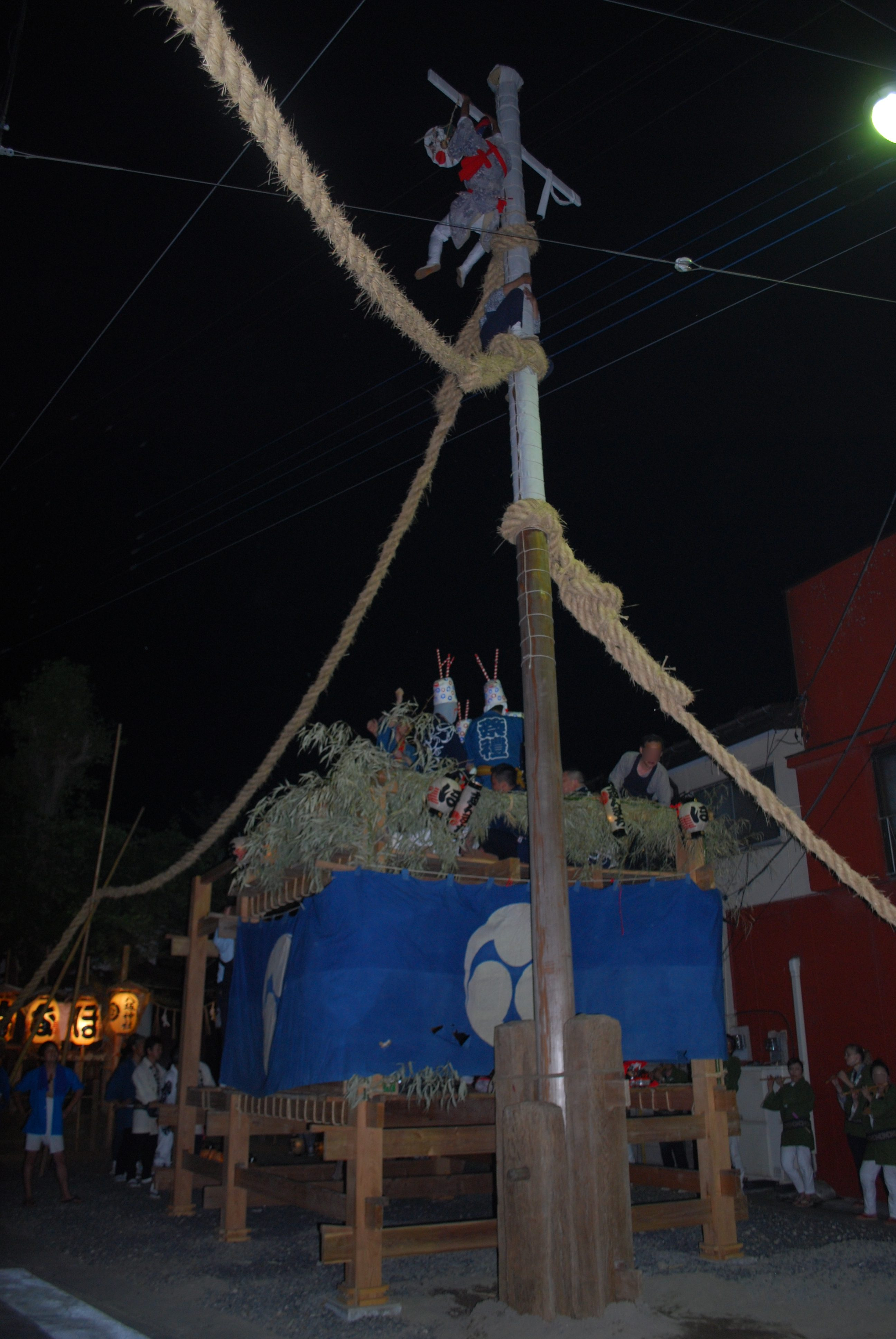 Shiikago-mai,Tako-gion-festival,Tako-town,Japan